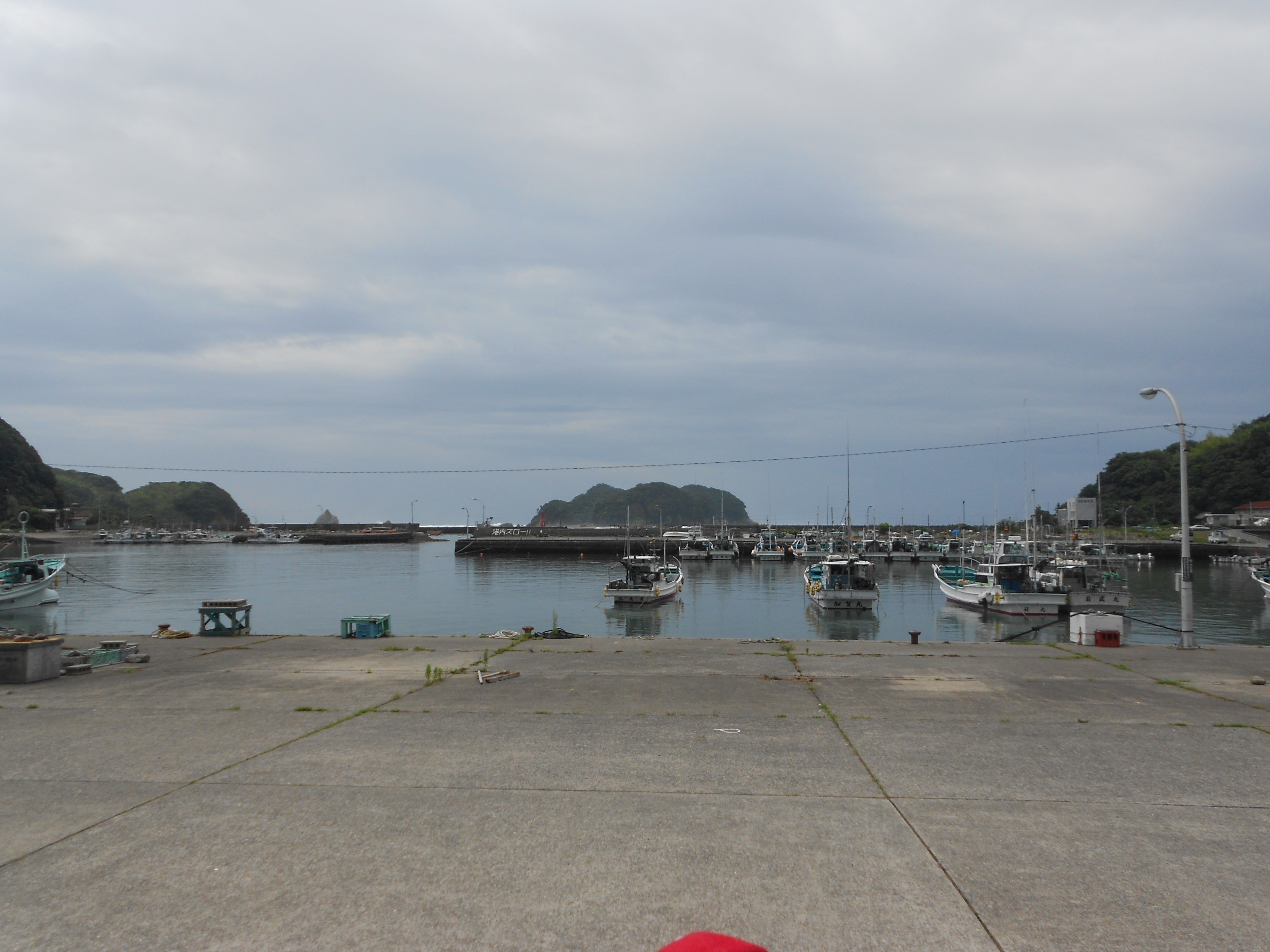 Yuki Harbour in 2014